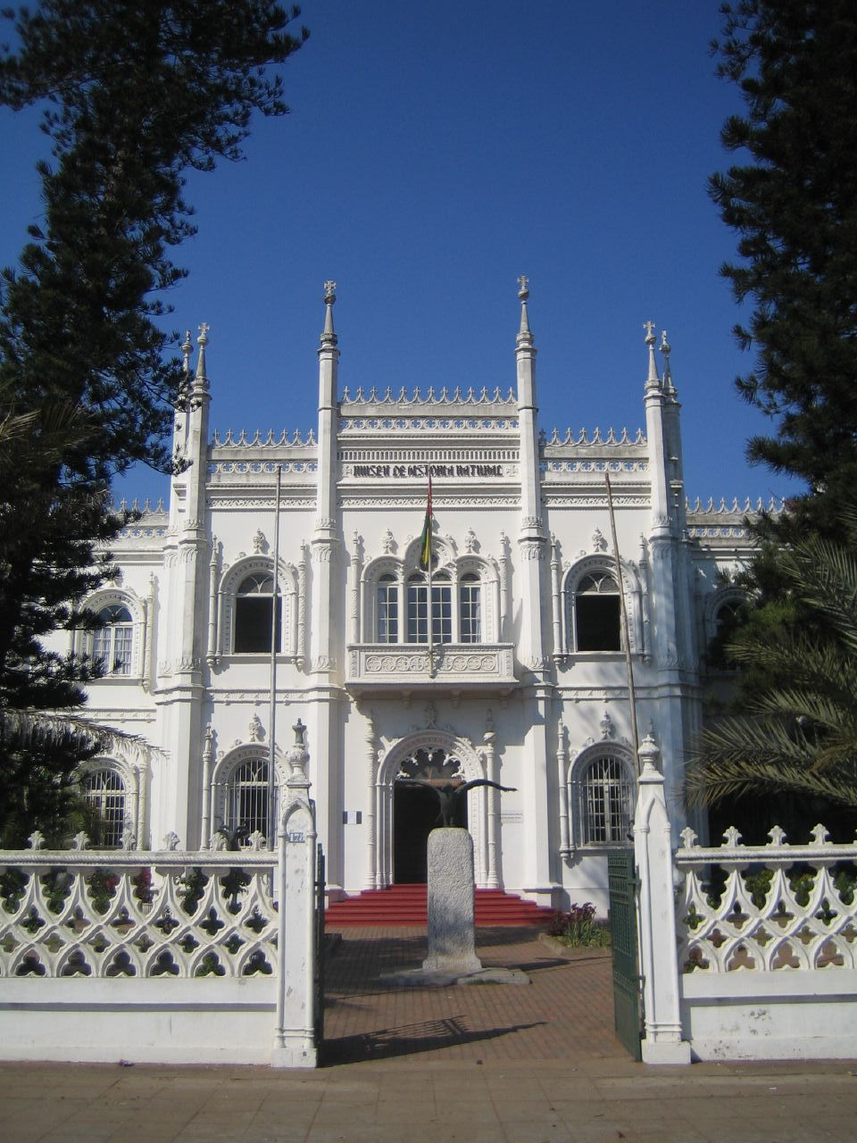 Natural History Museum of Mozambique in Maputo